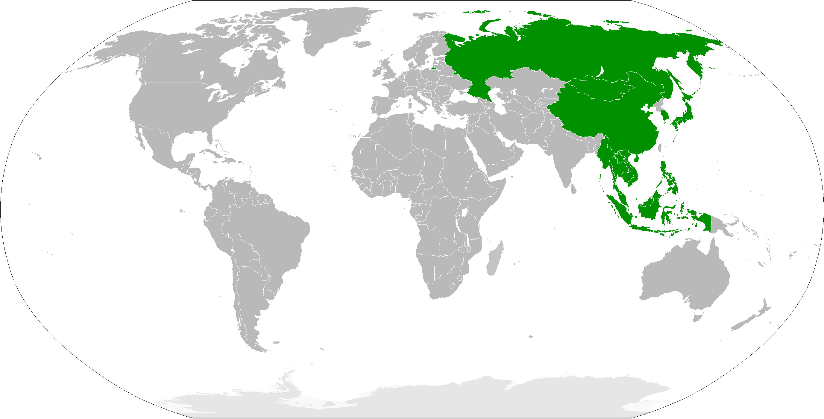 The Acid Deposition Monitoring Network in East Asia (EANET) member countries.